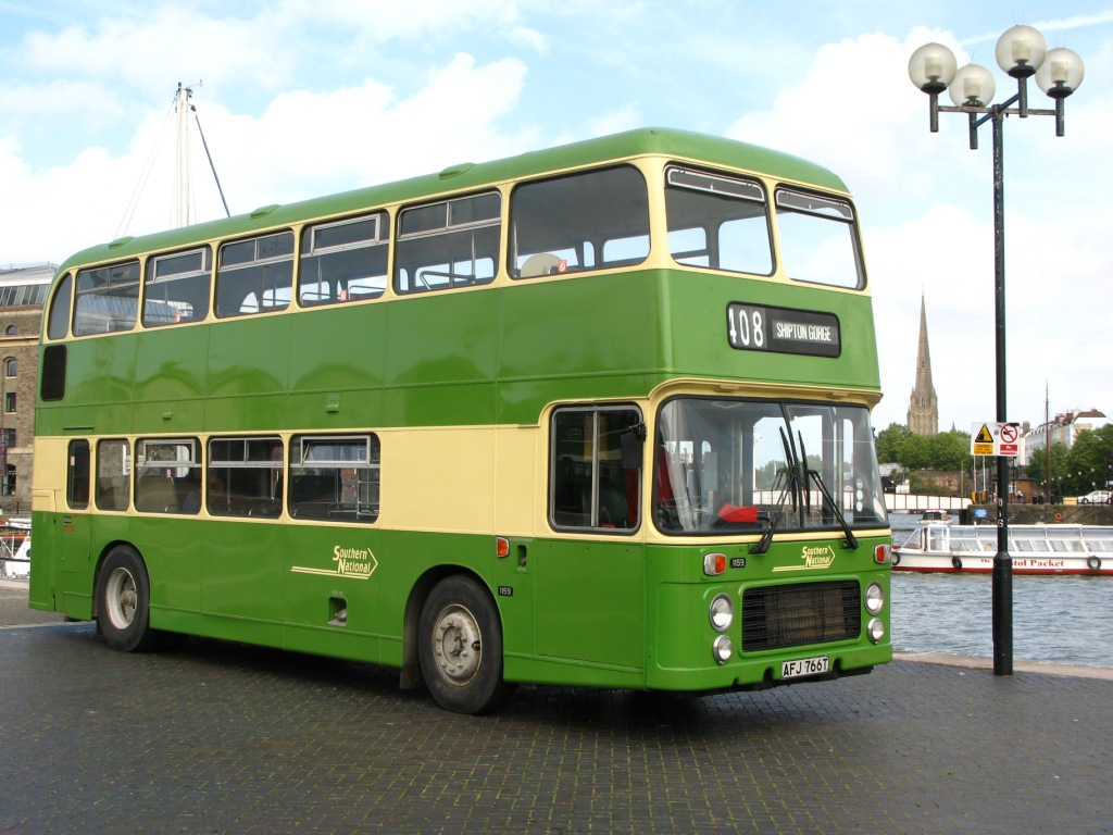 Preserved Southern National 1159,a Bristol VRTSL registerd AFJ 766T, at the Bristol Harbourside Bus Rally.